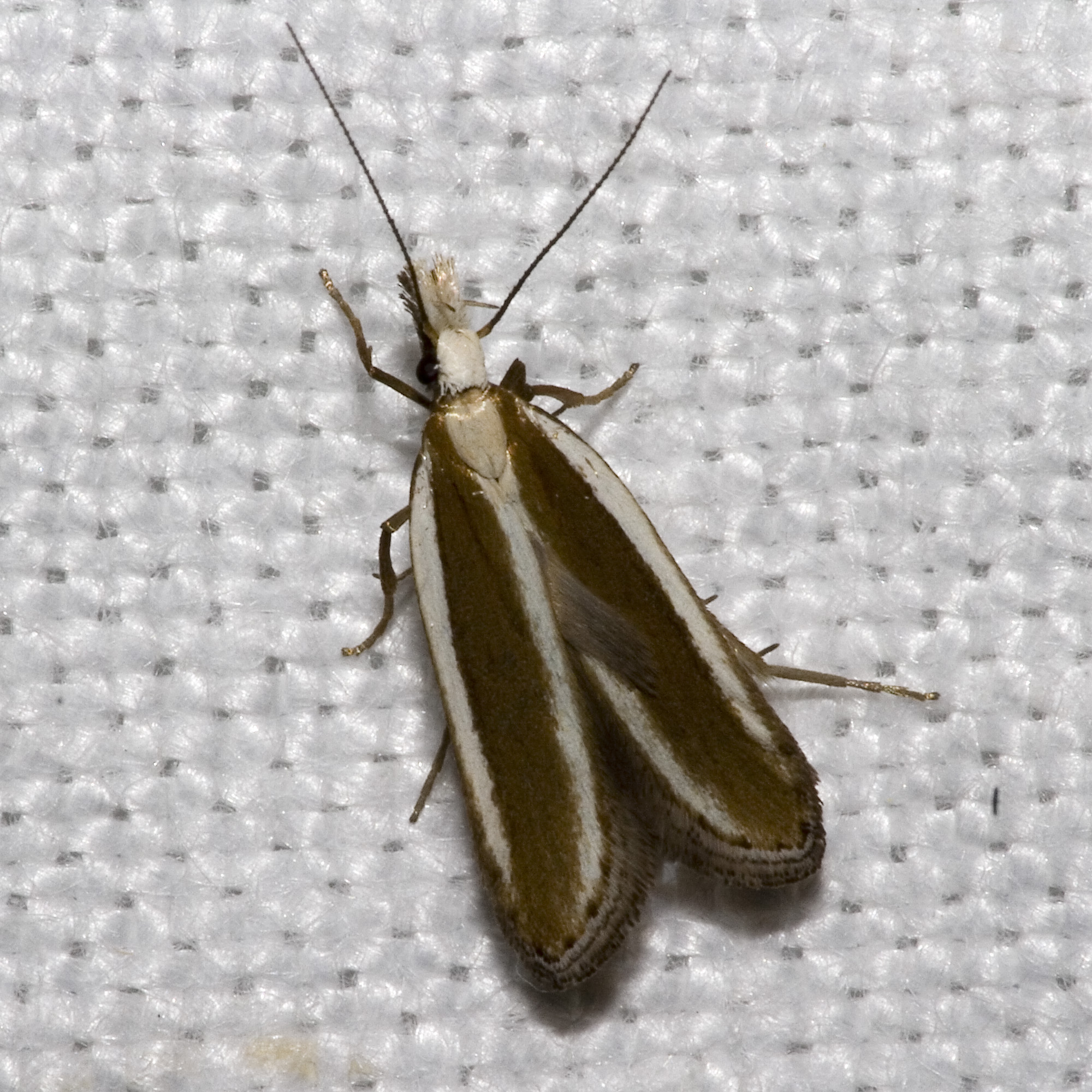 Dichomeris marginella (Fabricius, 1781) Many thanks to Peter Buchner for determination help! Location: Dresden, Pohrsdorfer Weg (Saxony, Germany) 5/180L f22 Film / Speed: ISO 100 Comment: Canon Flash 580EX